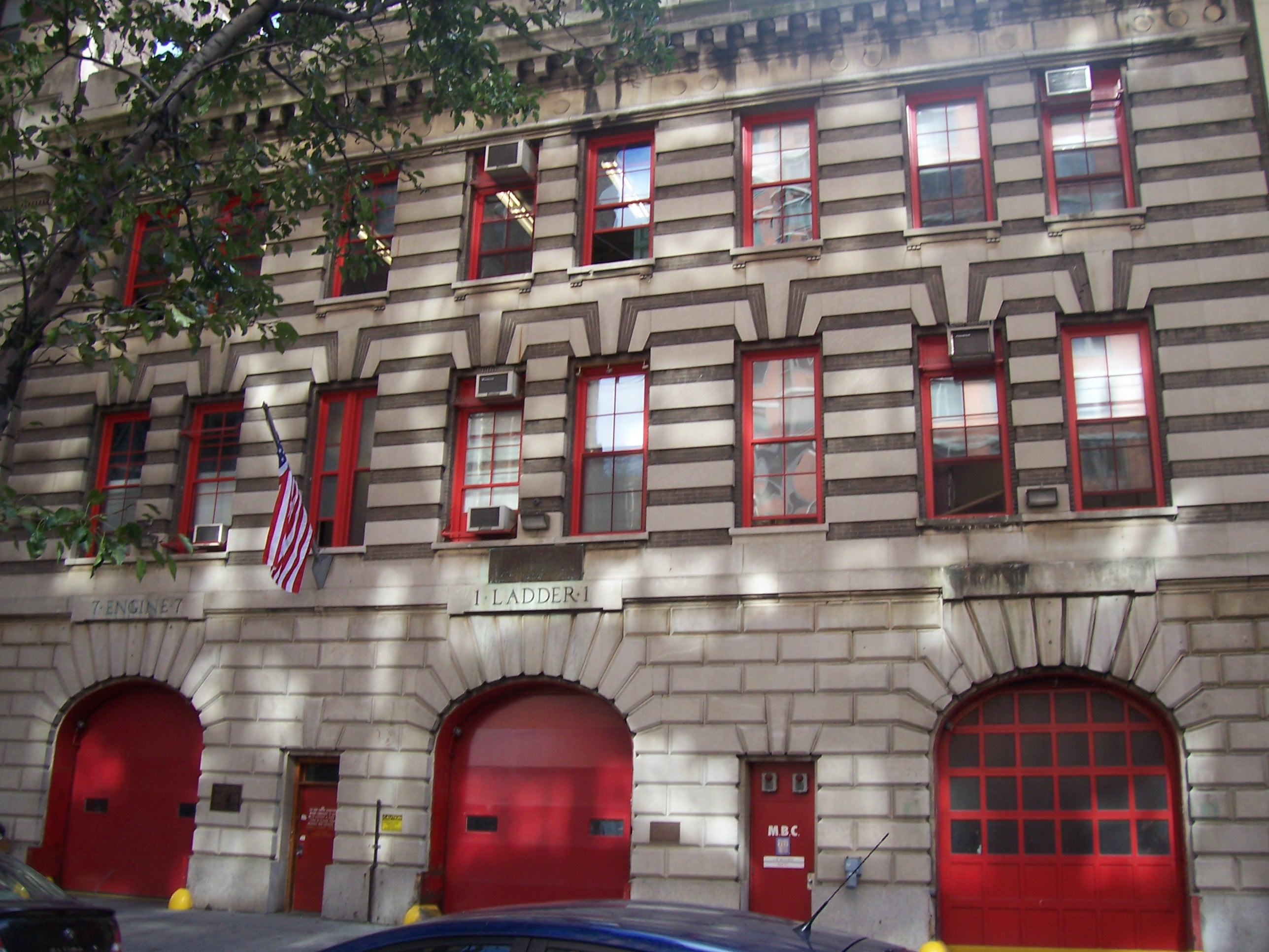 Looking south across Duane Street at Engine Company No. 7/Hook & Ladder Company No. 1 Firehouse in New York City. See also File:WTM3 Jewsy Fruit 0027.jpg.